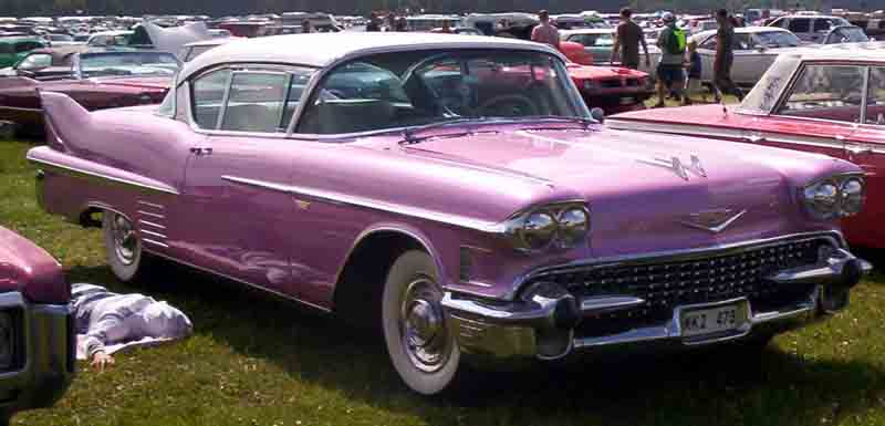 1958 Cadillac Series 58G-6237(X) Hardtop Coupe